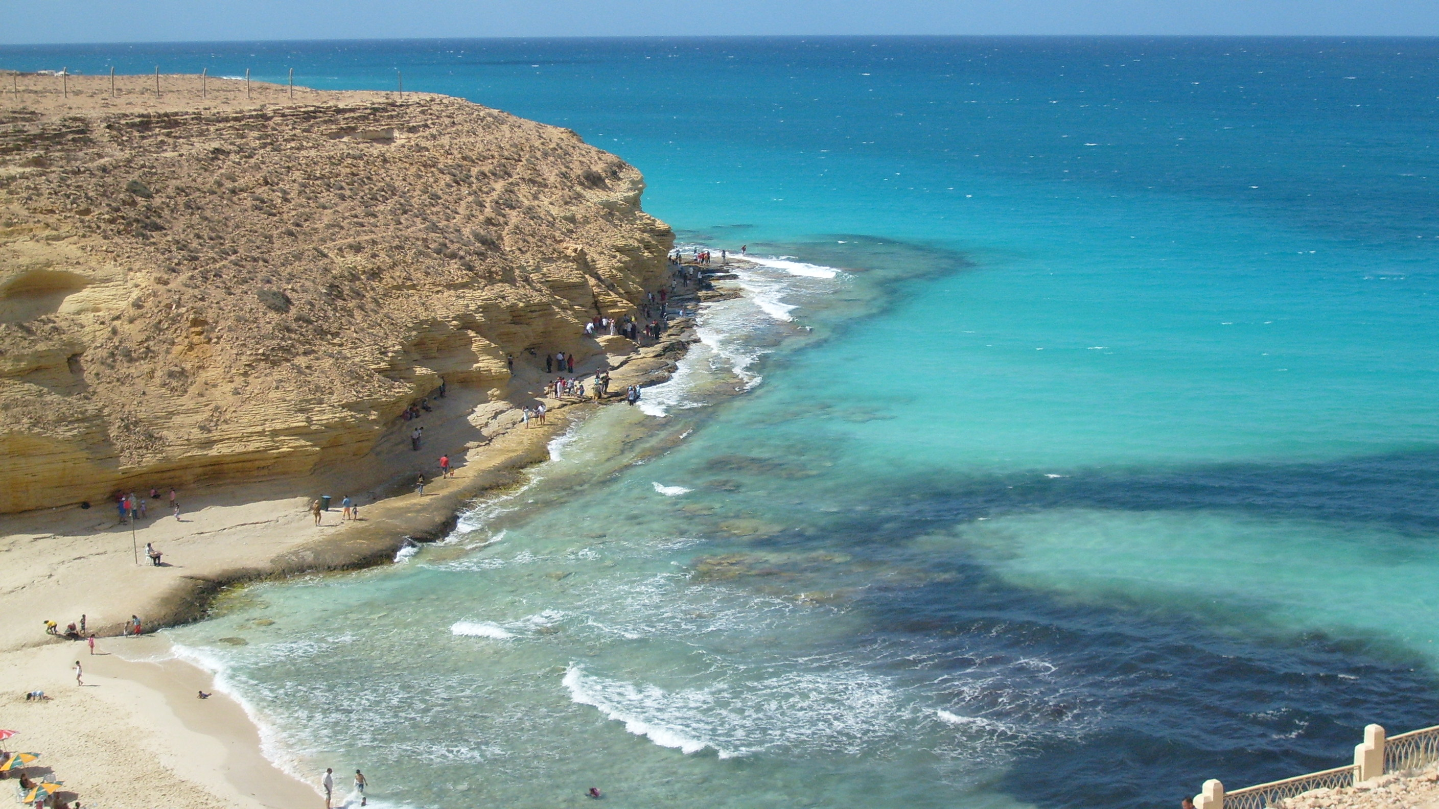 Ajiba beach, Mersa Matrouh.